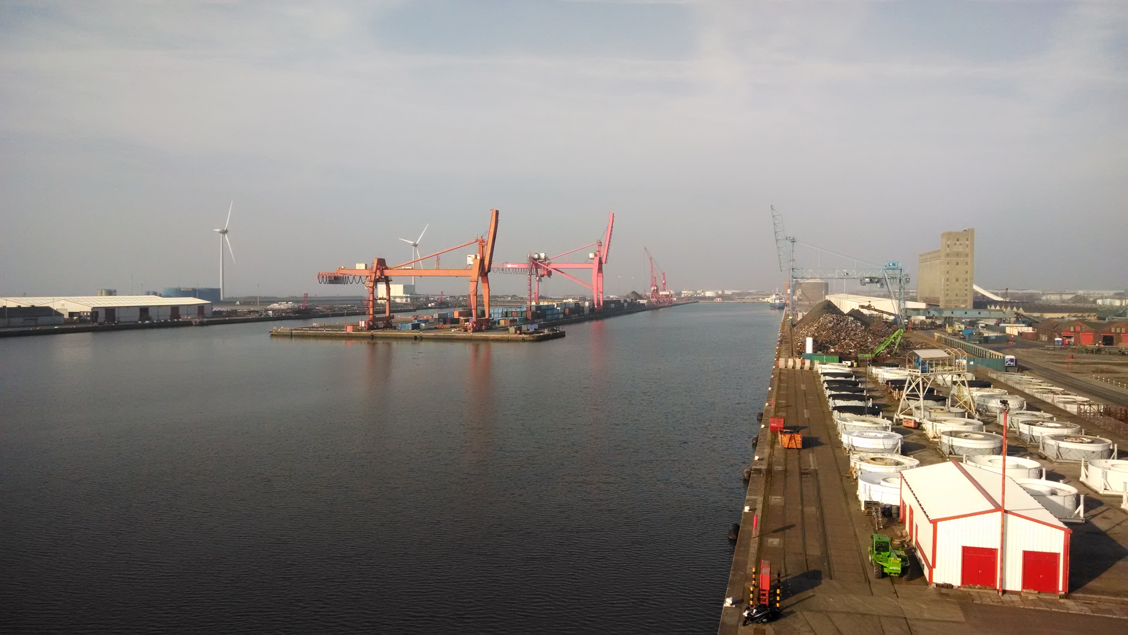 The Royal Edward Dock at Avonmouth, 13 March 2014.